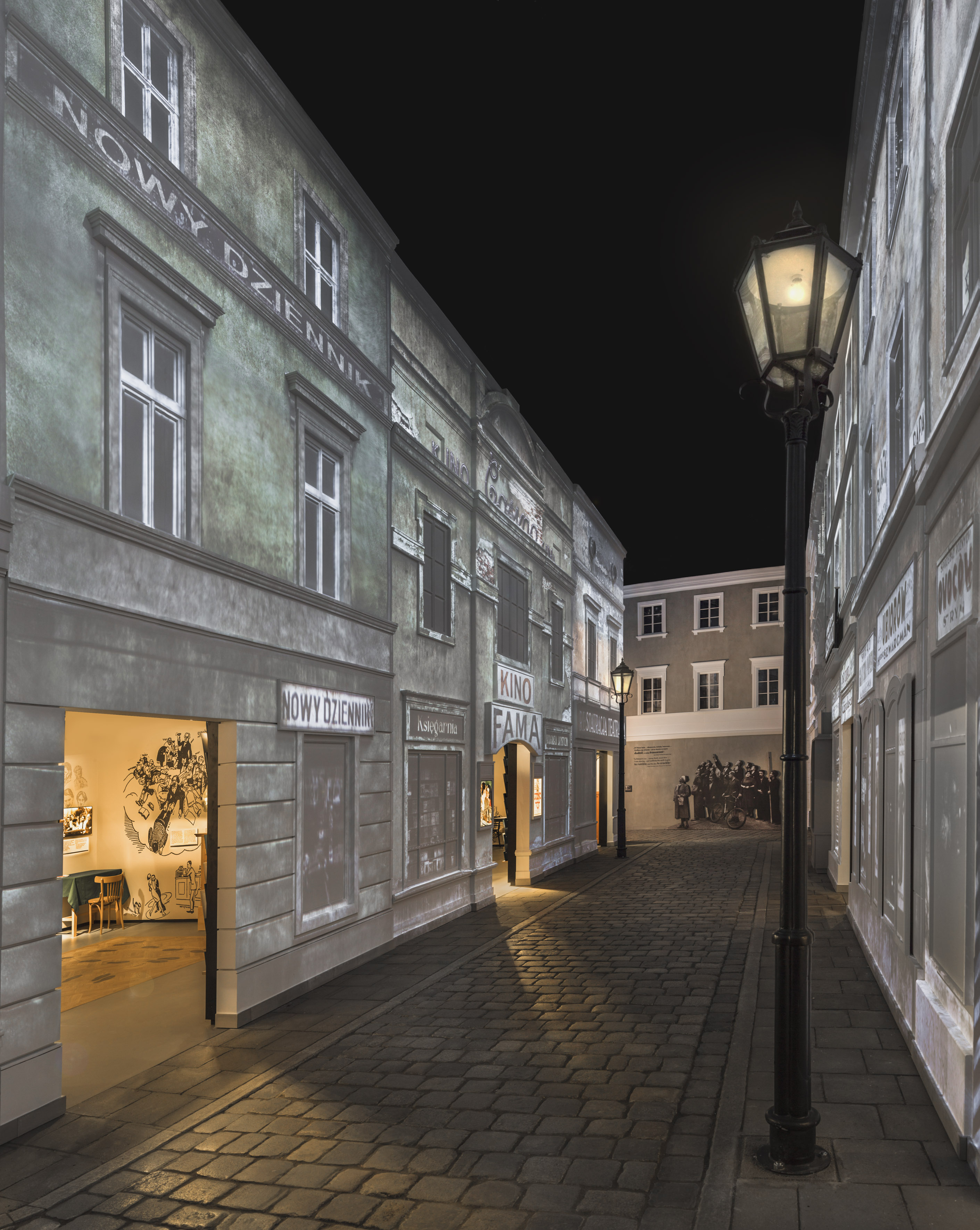 Main exhibition of the Museum of the History of Polish Jews in Warsaw. "On the Jewish Street" gallery